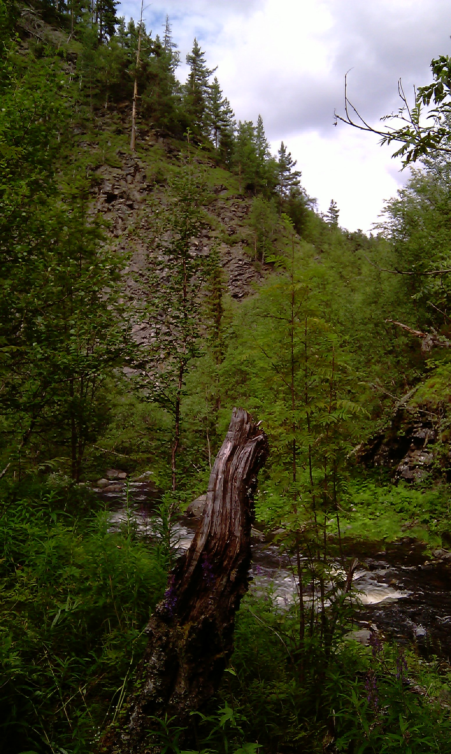 View of Berdøla